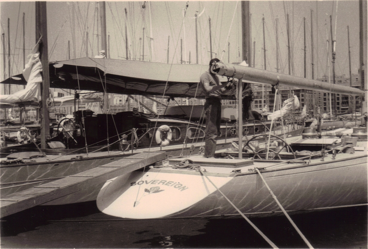 Sovereign in the Vieux-Port of Marseille in 1965 or 1966, new owner Marcel Bich, to prepare the first America Cup french challenge